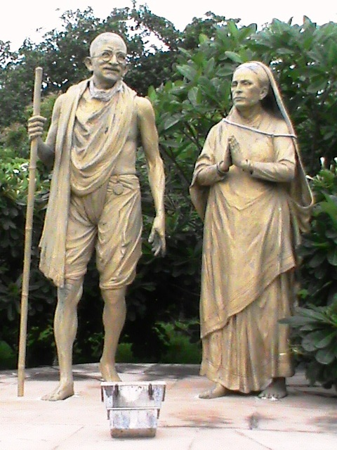 PHOTO CACH BY MR -PRADHYUMANVYAS AT SANDIPAMI TEMPLE AT PORBANDAR , STATUE OF MAHATAM GANDHI JI AND HIS WIFE KASHTUR BA